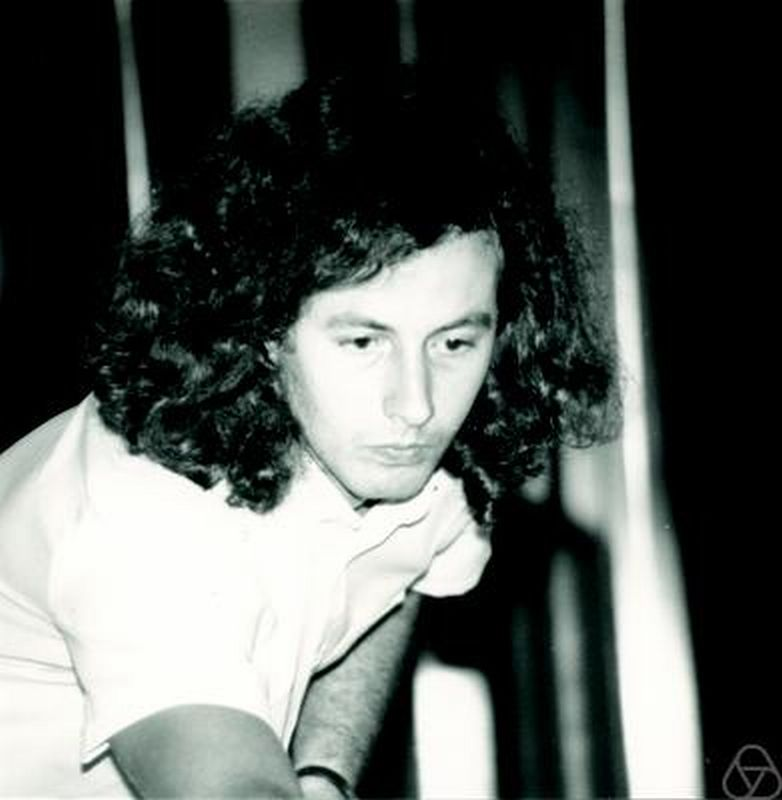 Christian Bonatti, Oberwolfach 1987